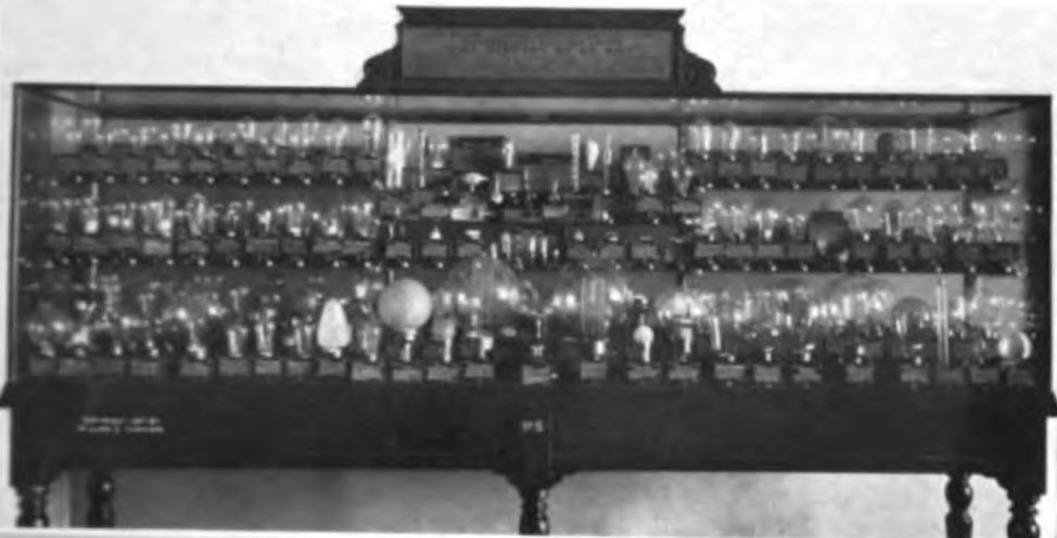 Hammer Collection of Electric lamps - Case 5